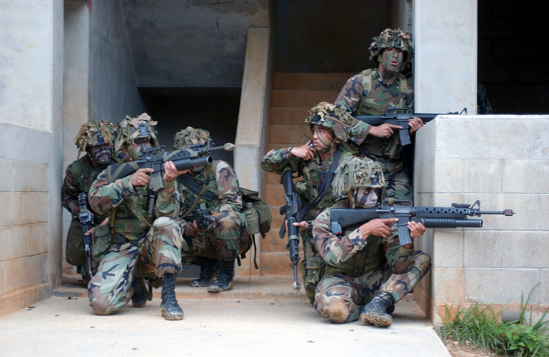 United States Marine Corps (USMC) members from L Company, 3rd Battalion, 3rd Marine Regiment, 3rd Marine Division, practice Military Operations and Urban Terrain (MOUT) warfare at the Camp Hansen, Central Training Area, using unarmed safety rigged Colt 5.56mm M16A2 Assault Rifles (and with under-barrel M203) or FNH 5.56 mm M249 SAW (with EOTech Sight). Note the special rail on the carrying handle of the left's M16A2 and the improvised camo. Camera Operator: LCPL ANTONIO J. VEGA, USMC Date Shot: 10 Apr 2002.